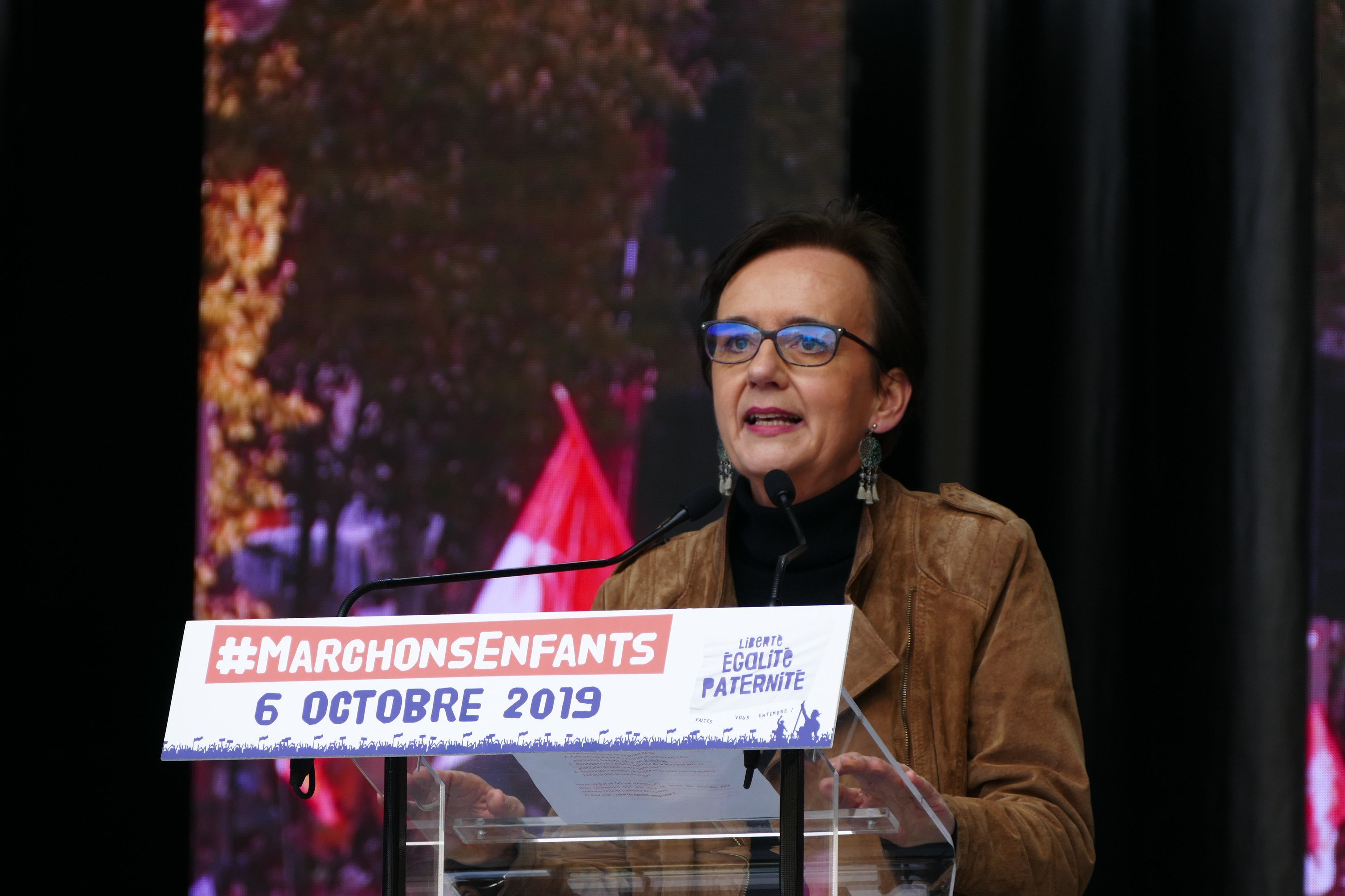 Protest « Marchons Enfants » against assisted reproduction in Paris (Île-de-France, France).